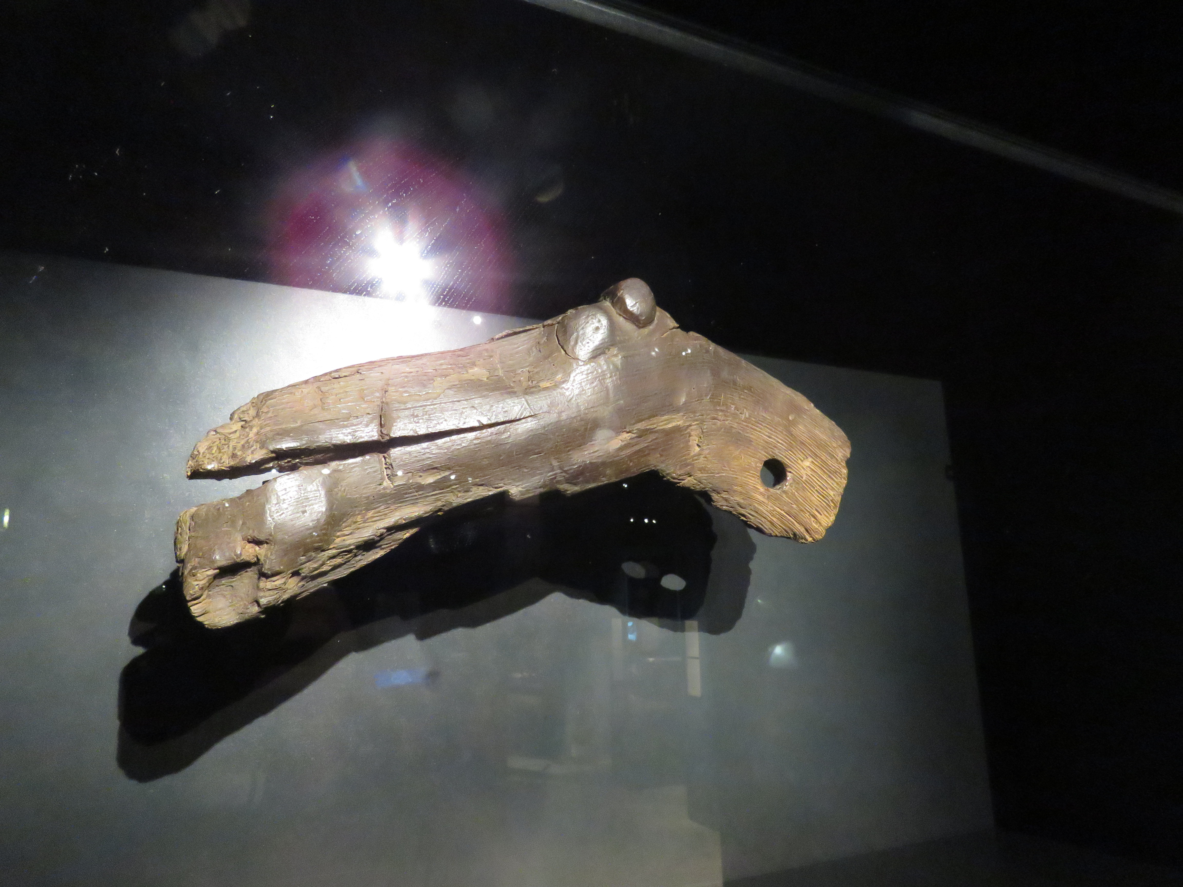 Copy of Rovaniemi Elk's Head. The original wooden statue was found in 1955 from a bog at Lehtojärvi village, Rovaniemi. It was made about 5790 BC.